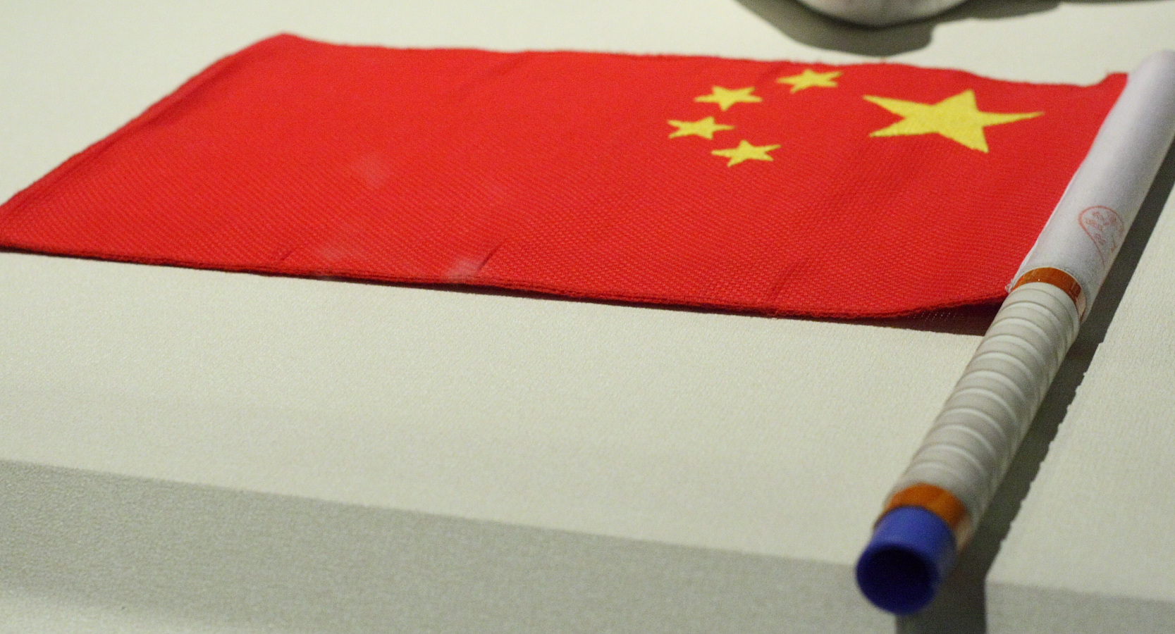 Chinese national flag, shown in the first Chinese EVA mission. Taken at the Hong Kong Space Museum, 6 Dec 2008.